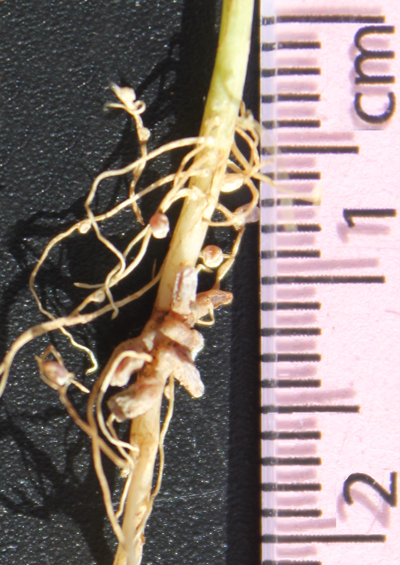 Nitrogen-fixing nodules on clover roots with centimeter scale